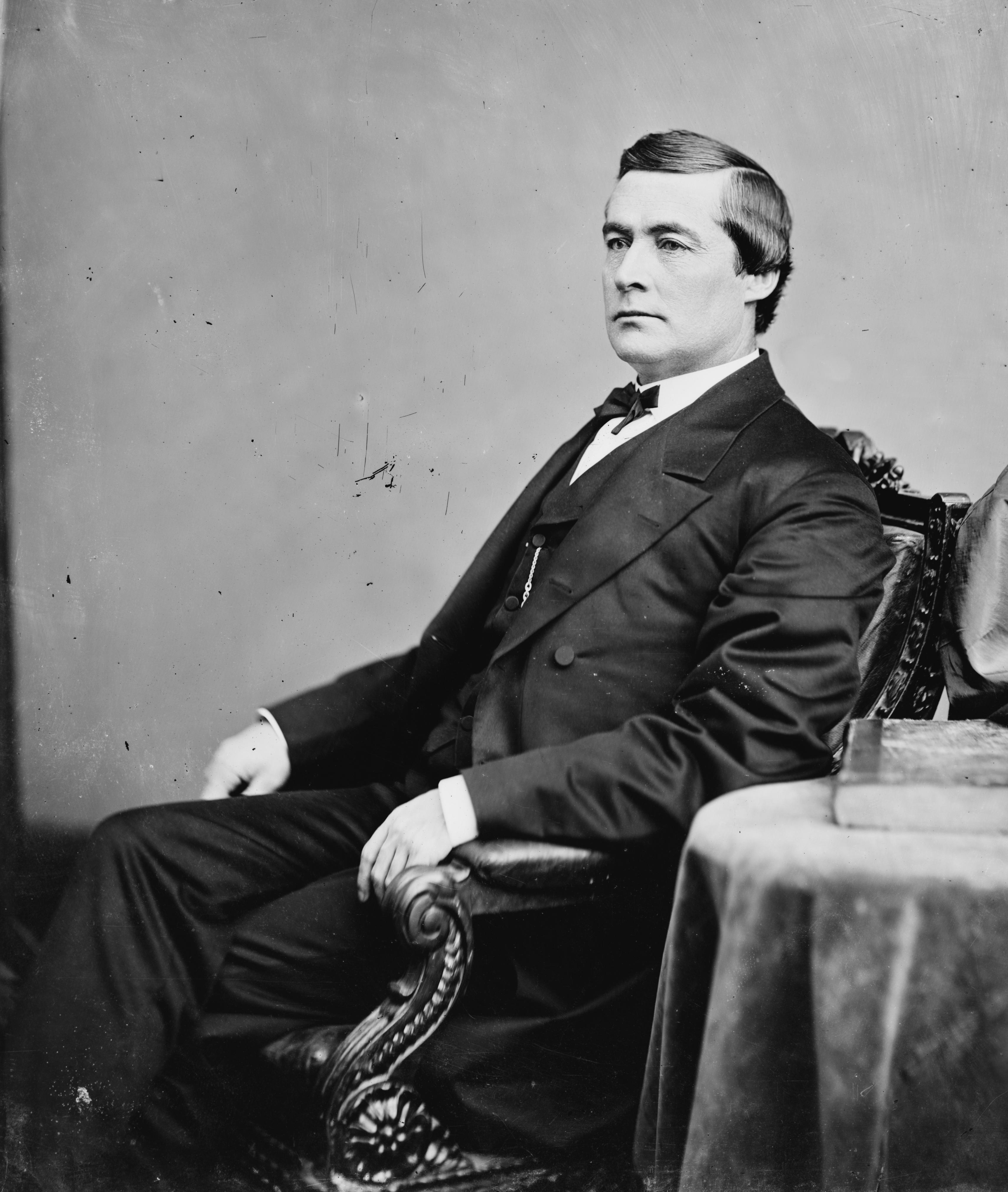 Edmund G. Ross. Library of Congress description: "Hon. E. G. Ross of Kansas"